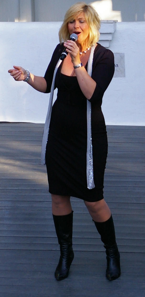 Torhild Sivertsen known from the Norwegian band Tomboy. This picture is from 2009 when she had gone into solo-singing